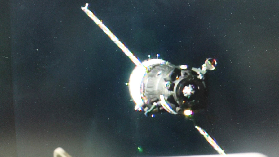 A camera on the space station observes the Soyuz MS-03 spacecraft moments before docking to the Rassvet module.